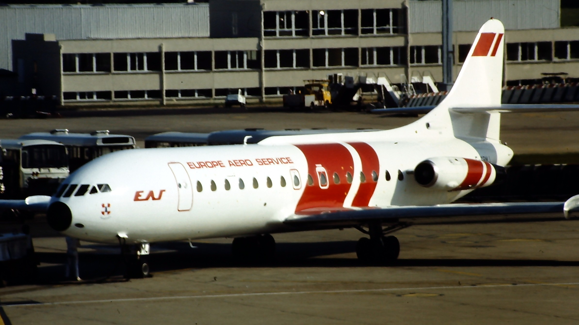 F-GBMJ is a Sud Caravelle VI-N of Europe Aero Service at Paris Orly Airport